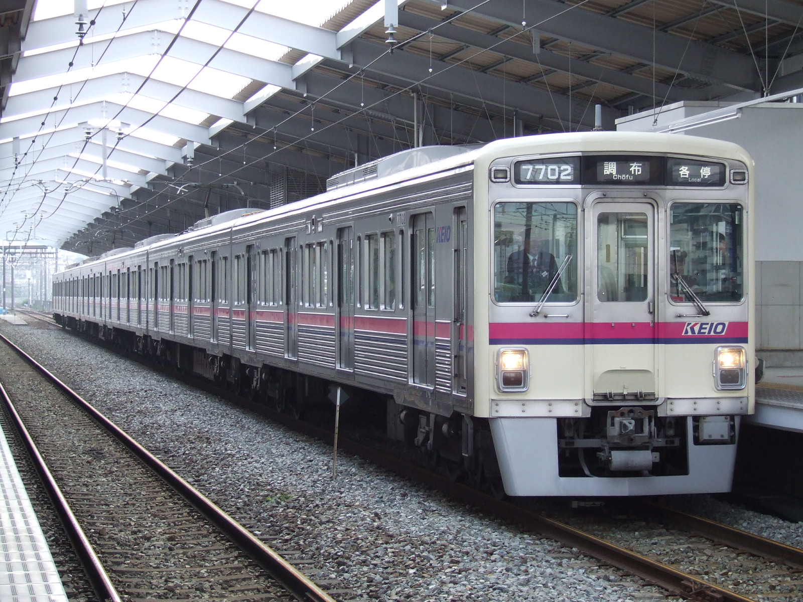 Model 7000-6Cars-,Keio Electric Railway（→Keio Corporation）,Japan at Keiō-Tama-Center Station on the Keio Sagamihara Line